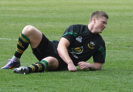 He obviously doesn't have anything important to do... Saints v Saracens GP SF 16/05/10